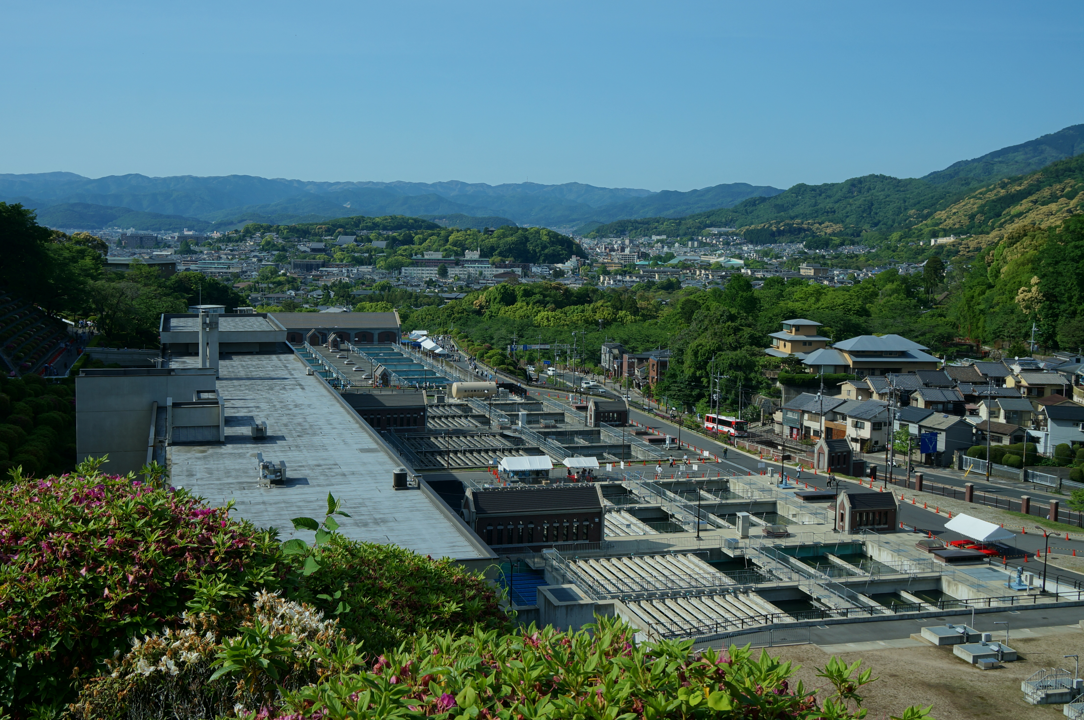 Photograph of the overview of lower area, Keage Purification Plant in Higashiyama-ku, Kyoto, Kyoto Prefecture, Japan.